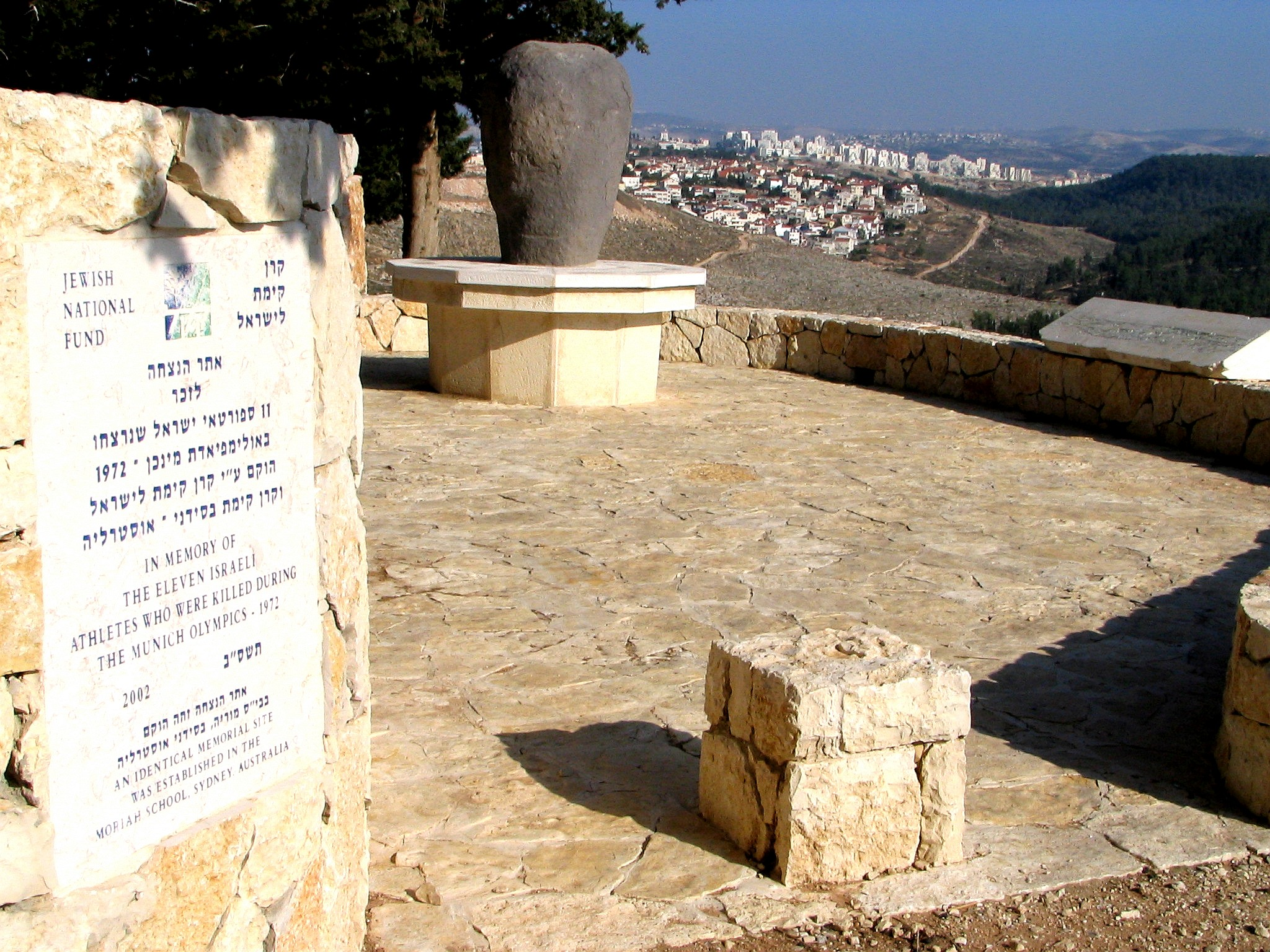 Plase in memory of the eleven israeli athletes who killed during the Munich olypics -1972 located in Ben-Shemen forest in Israel